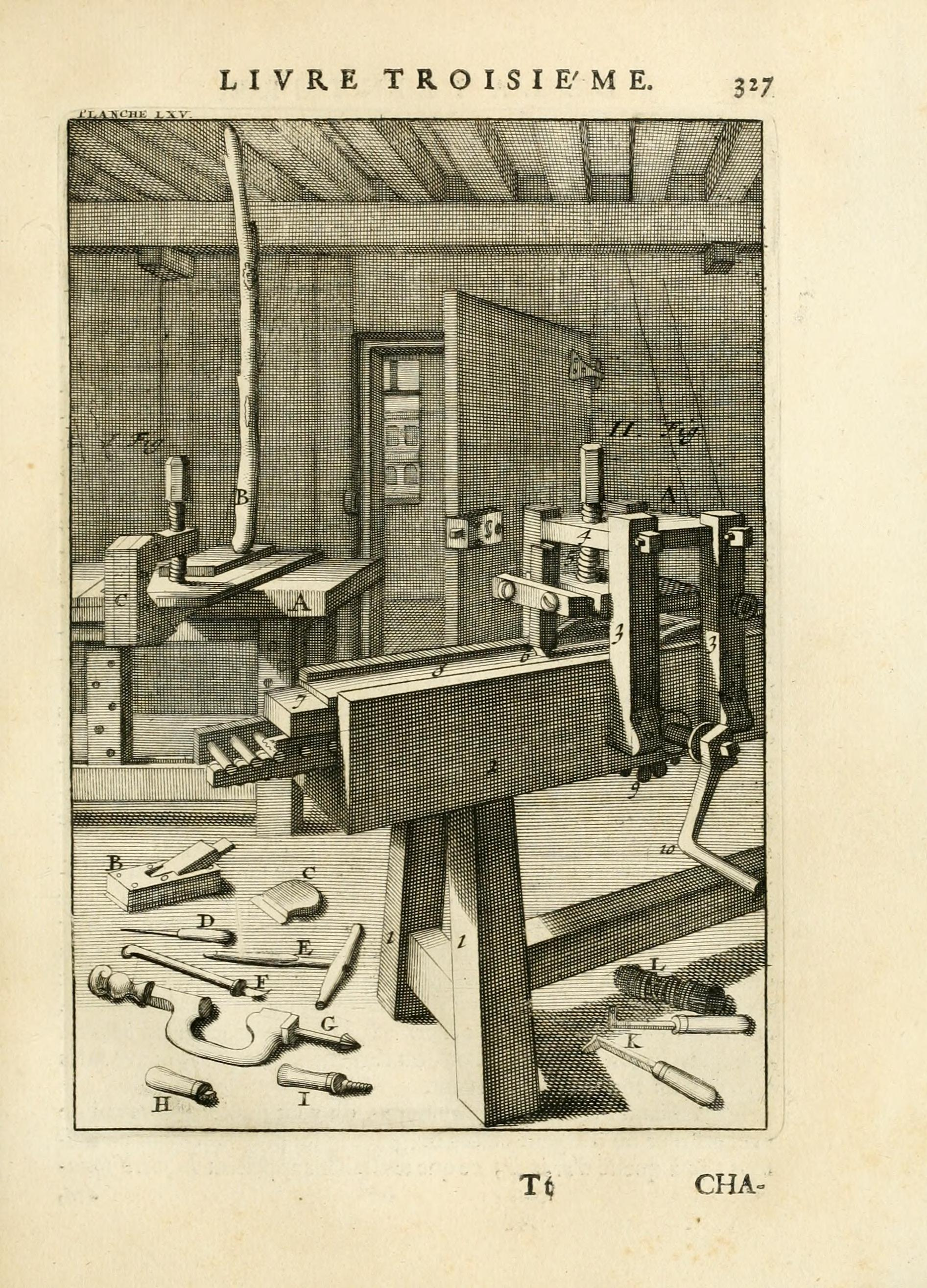 Engraving from book "Des principes de l'architecture, de la sculpture, de la peinture, et des autres arts qui en dépendent" (1699) showing carpenters tools, machine for making rippled moldings and polishing/grinding instrument (polissoir).